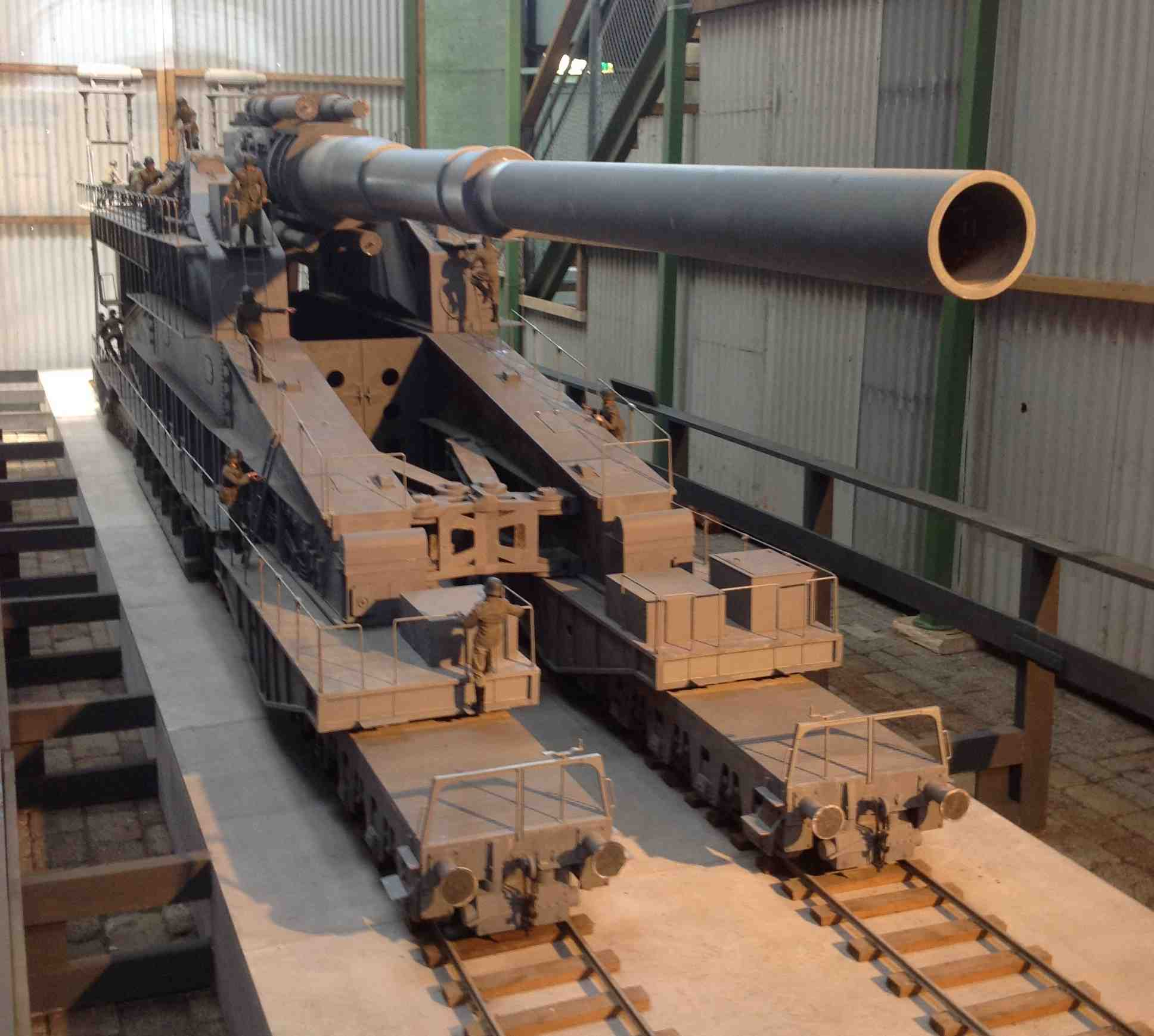 Krupp 80cm Schwerer Gustav, model, as seen in Spoorwegmuseum, Utrecht, Netherlands